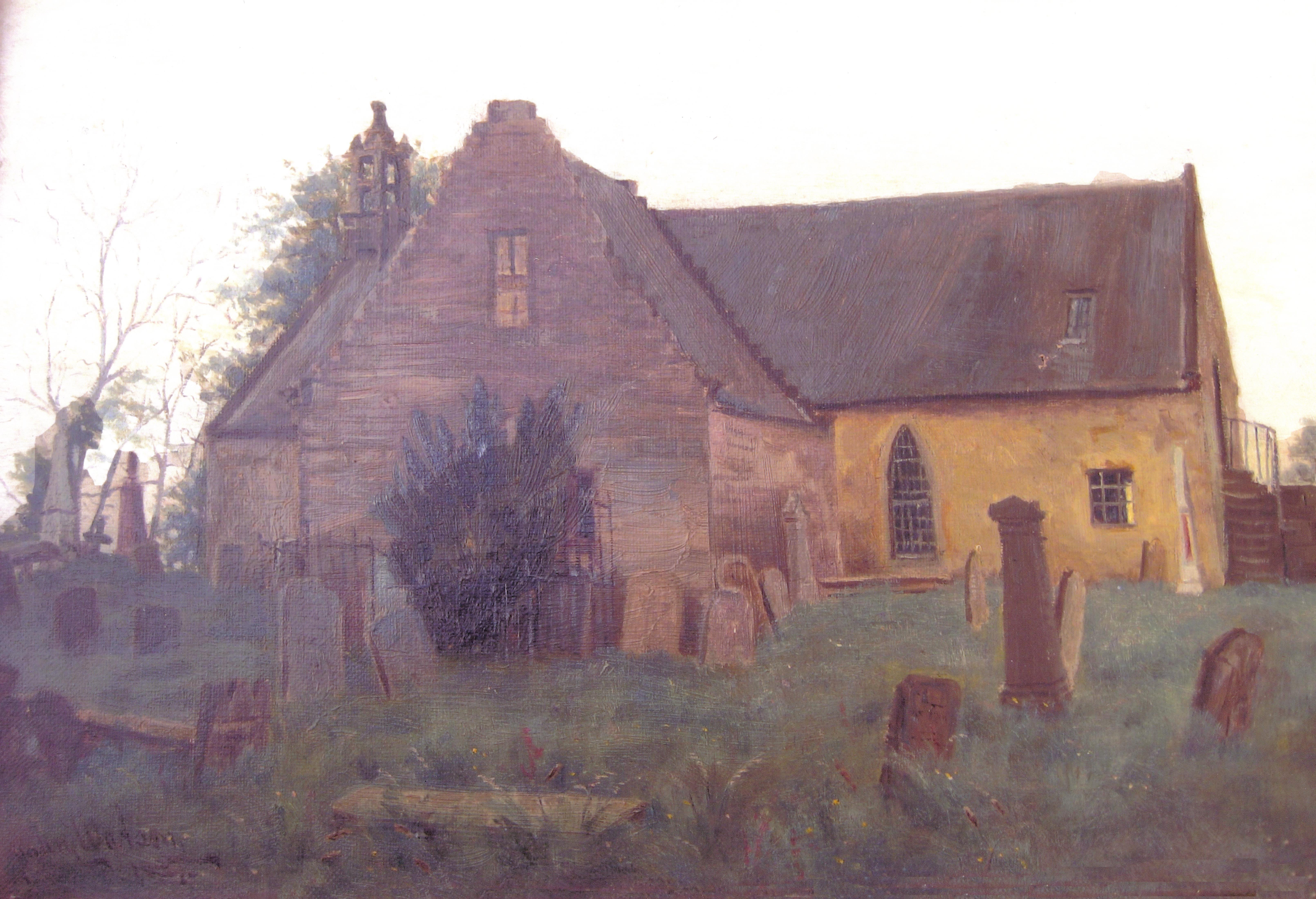 Saint Maurs church in Kilmaurs, Ayrshire